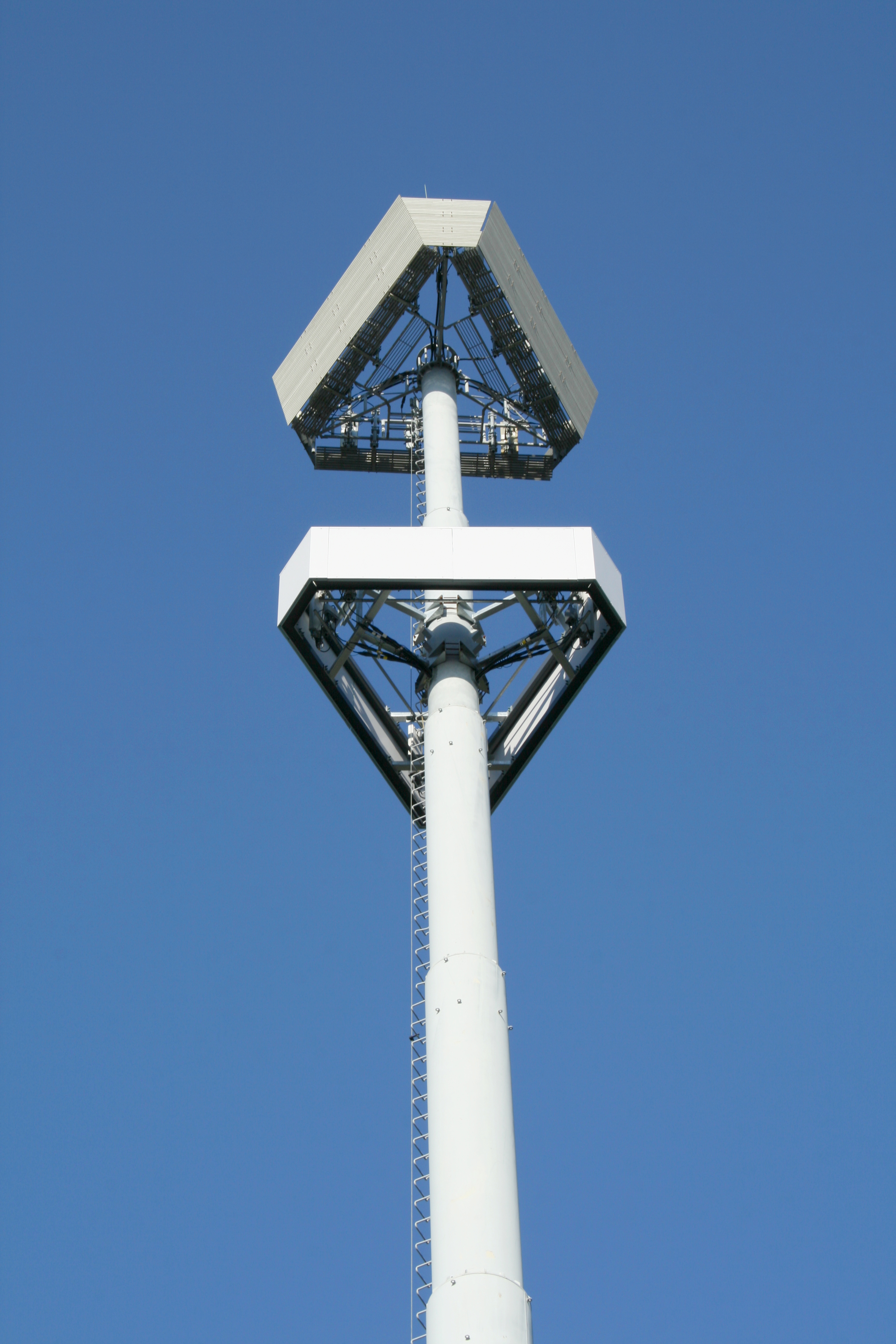 A cell tower in Morrisville, North Carolina.